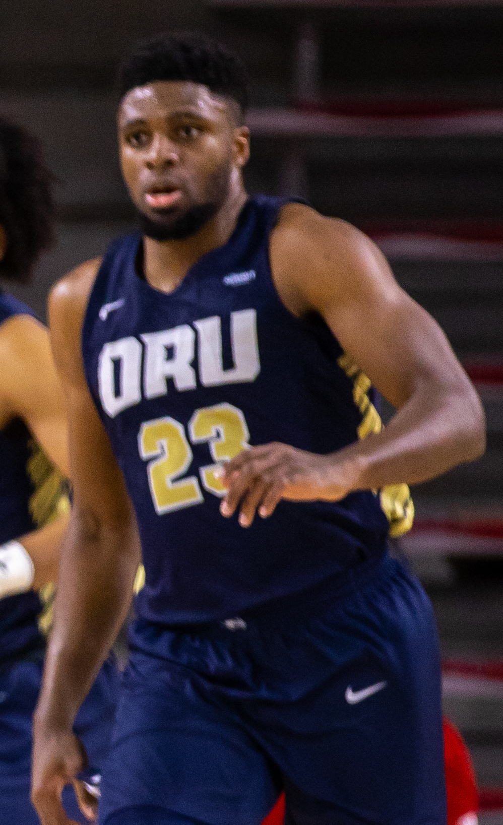 photo by Peyton Beyers